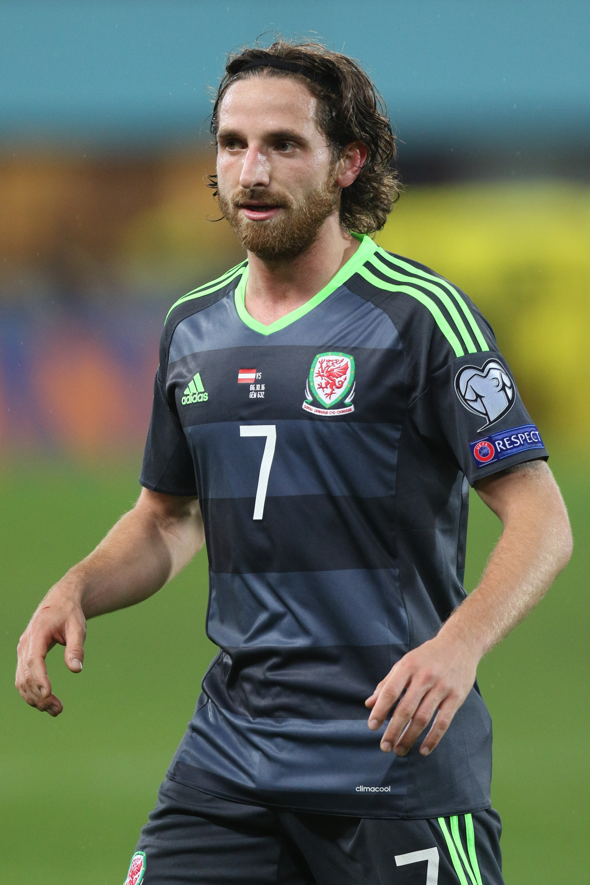 2018 FIFA World Cup qualification – UEFA Group D) – Austria (red shirts) vs. Wales (white shirts) 2-2 (1-2) – 2016-10-06 in Vienna, Ernst-Happel-Stadion – The photo shows Joe Allen.